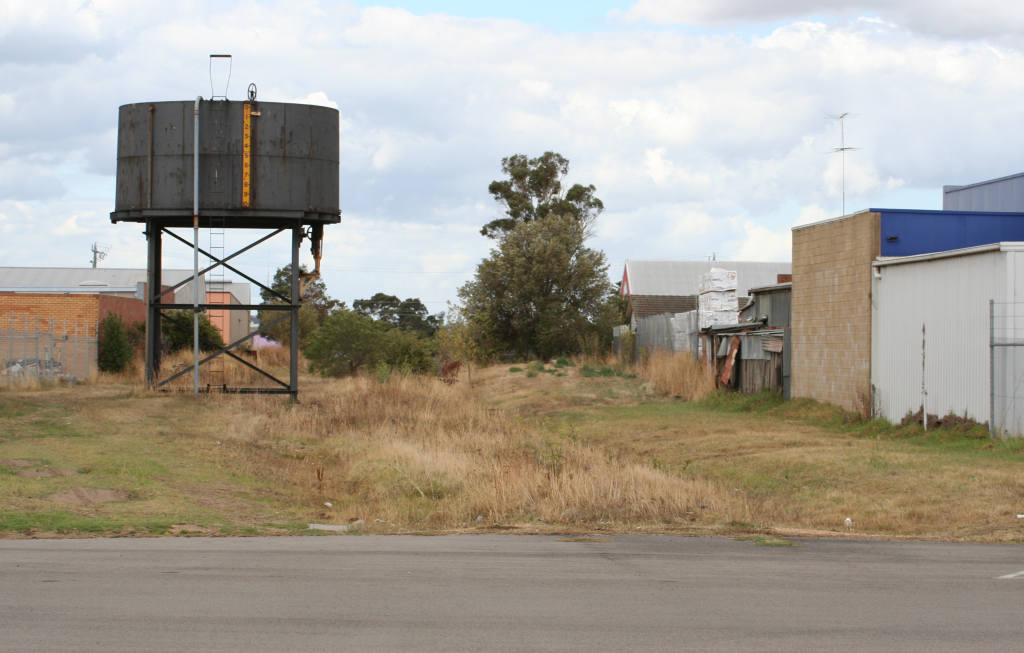 Former water tank and line east towards Orbost at Bairnsdale railway station, Victoria